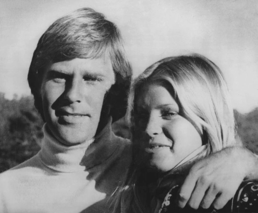 1976 Press Photo Golfer Ben Crenshaw, wife after winning Crosby National Pro-Am